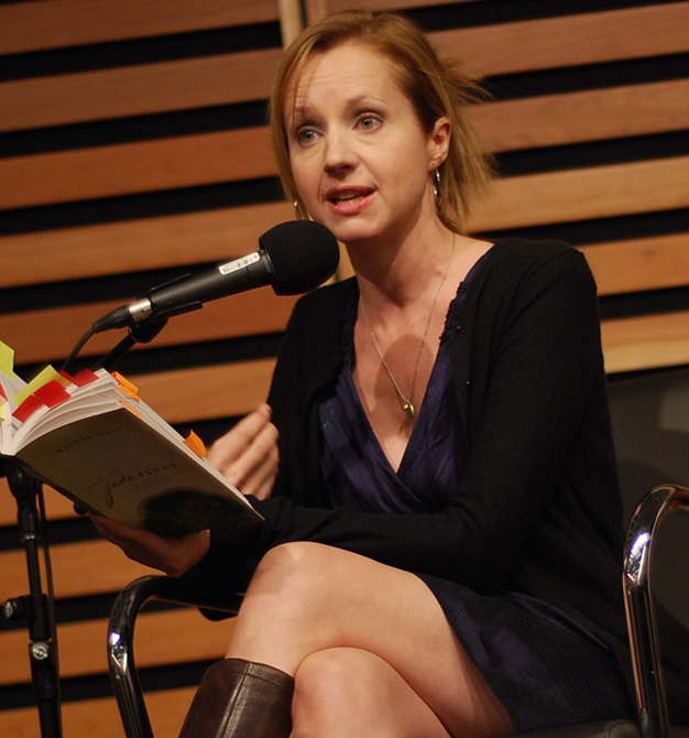 Samantha Nutt reads from her chosen book for Canada Reads, The Jade Peony by Wayson Choy.